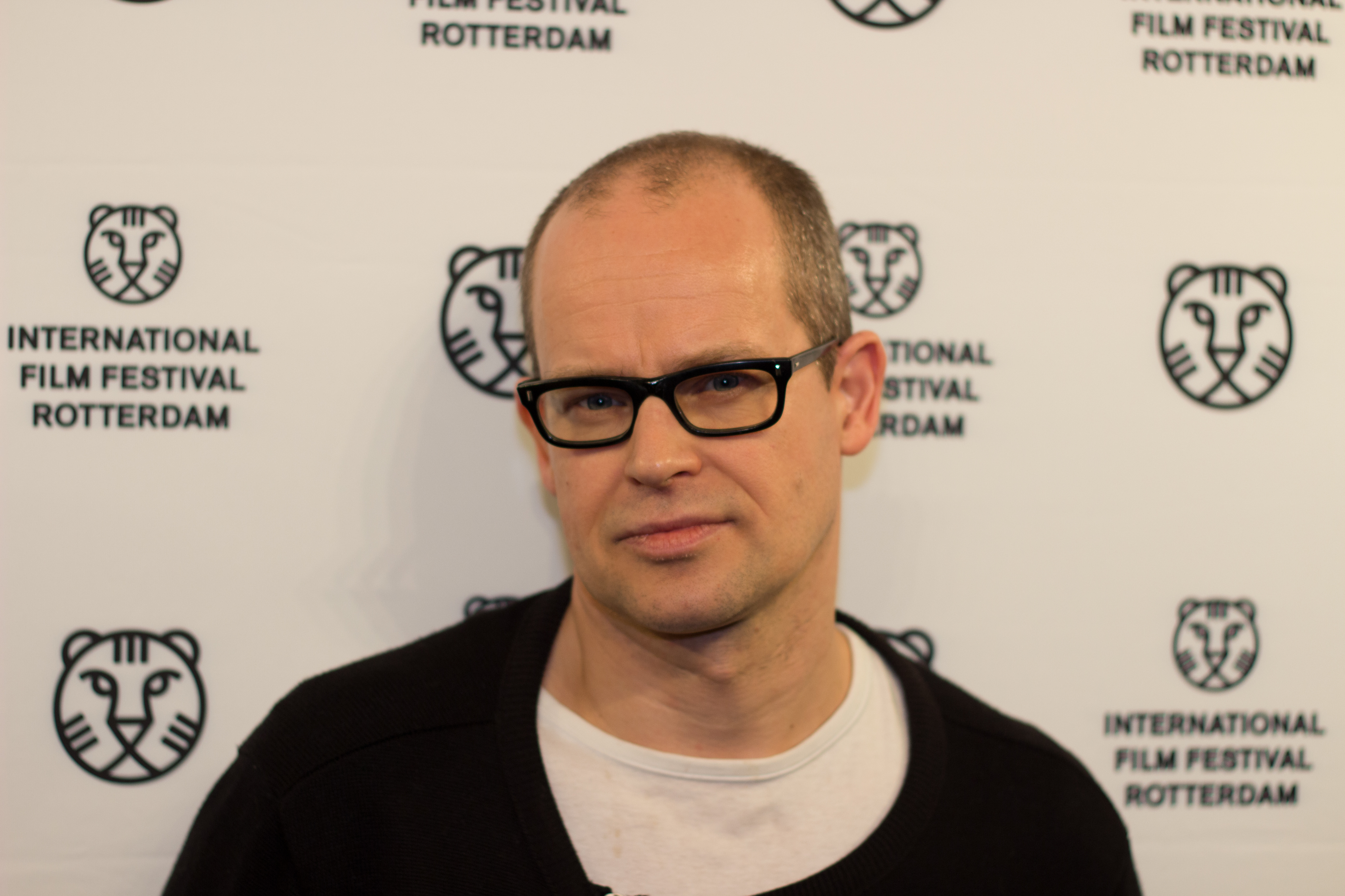 Erik van Lieshout at the premier of his movie WORK